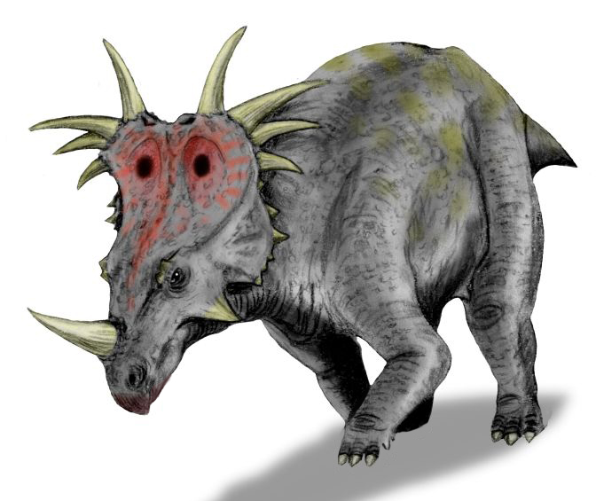 Styracosaurus albertensis, a ceratopsian from the Late Cretaceous of North America, pencil drawing, digital coloring